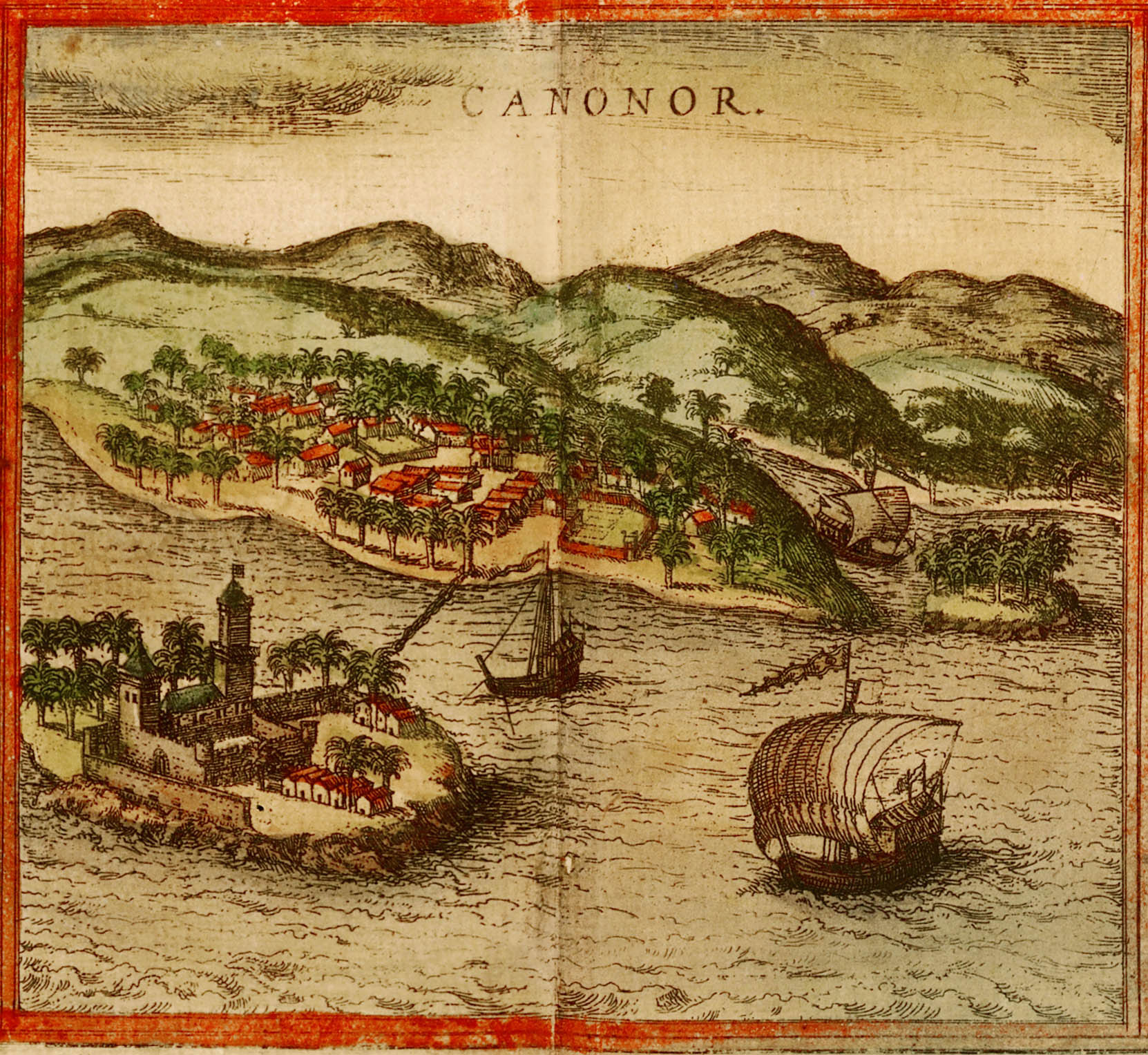 Canonor - bird's-eye view of the city of Cannanore (Kannur, India) from Georg Braun and Frans Hogenberg's atlas Civitates orbis terrarum, vol. I, 1572